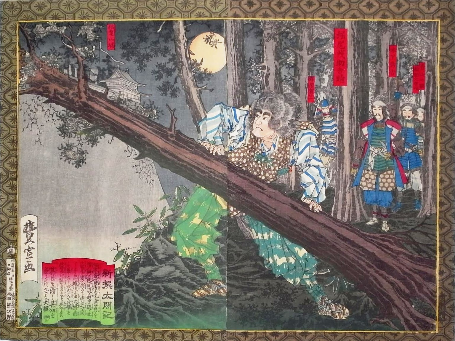 An ukiyo-e that Horio Yoshiharu leads Hideyoshi on a bypath to Inabayama Castle.